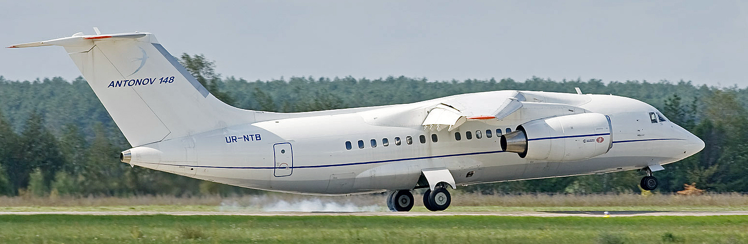 Antonov An-148